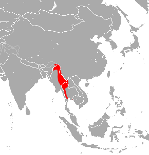 Dobson's Horseshoe Bat (Rhinolophus yunanensis) range